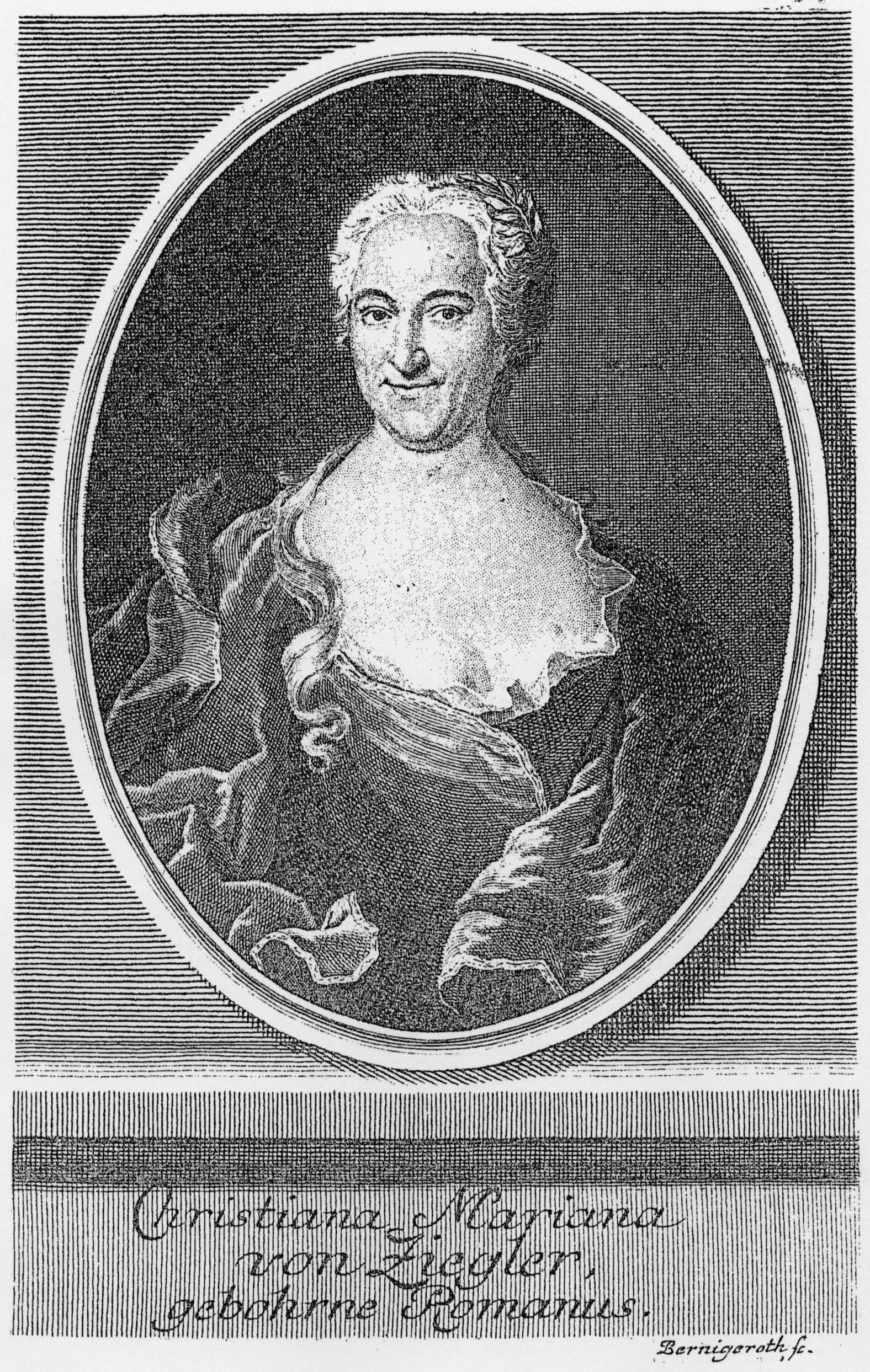 Portrait of Christiana Mariana von Ziegler (1695-1760)